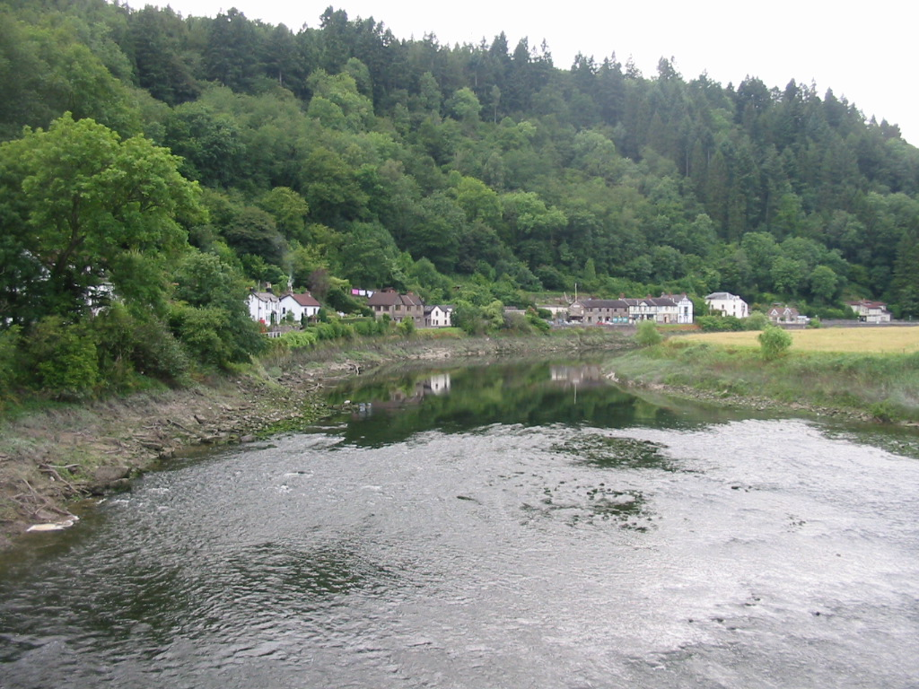 The village of Tintern in Monmouthshire, south-east Wales viewed from a disused railway bridge (now a footbridge) over the River Wye. At this point, the River Wye is the border between England and Wales. The village is on the west (Welsh) side of the river.